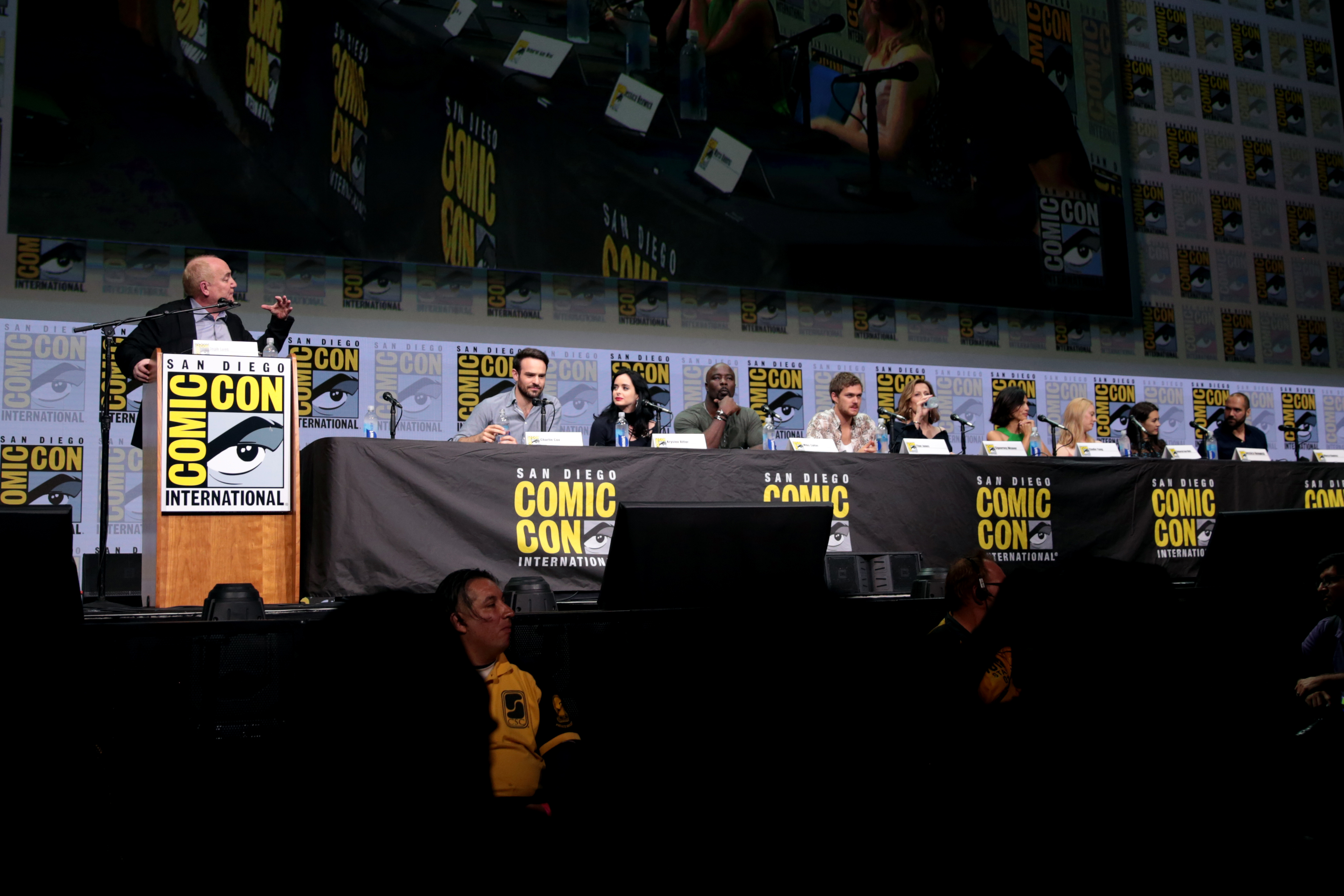 Jeph Loeb, Charlie Cox, Krysten Ritter, Mike Colter, Finn Jones, Sigourney Weaver, Elodie Yung, Deborah Ann Woll, Jessica Henwick and Marco Ramirez speaking at the 2017 San Diego Comic Con International, for "Marvel's The Defenders", at the San Diego Convention Center in San Diego, California.